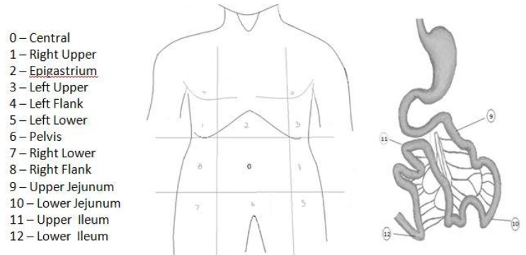 Abdominal planes and regions